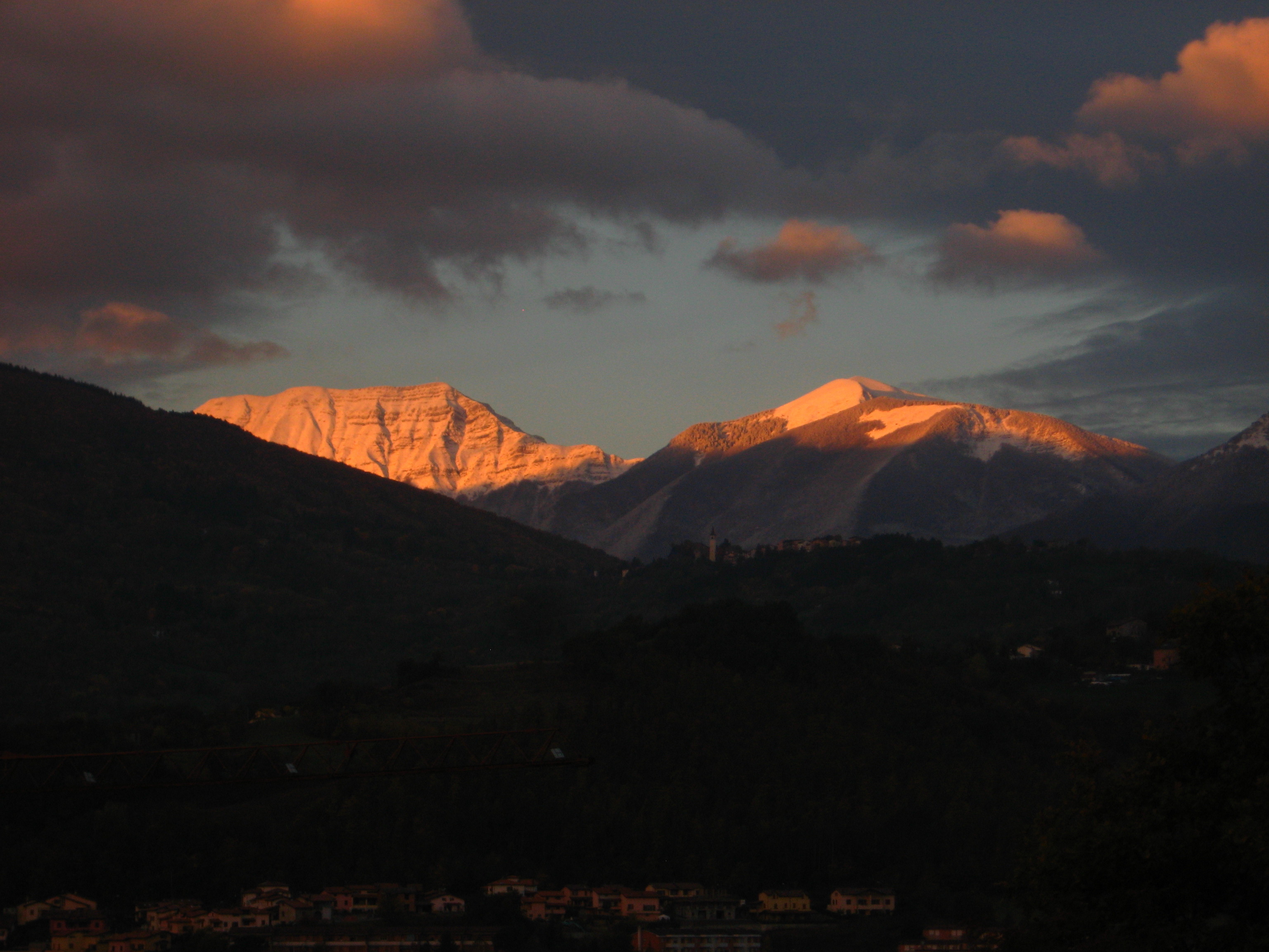 first rays of sun on Mount Corno alle Scale